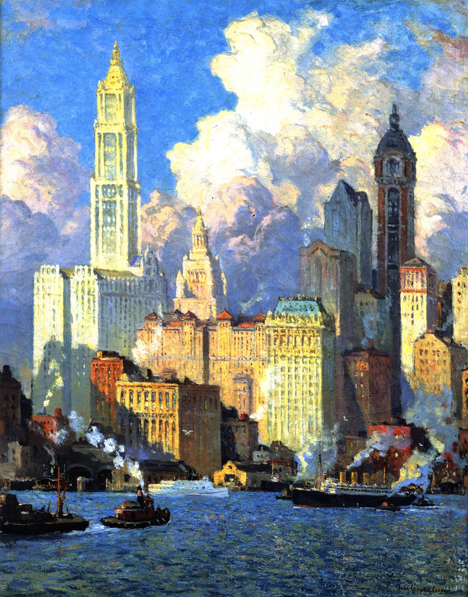 Hudson River Waterfront, N.Y.C., Colin Campbell Cooper, oil on canvas, 36 x 29 in, New York Historical Society. Included in the view are the Woolworth and Singer buildings, then the first and second tallest buildings in the world.